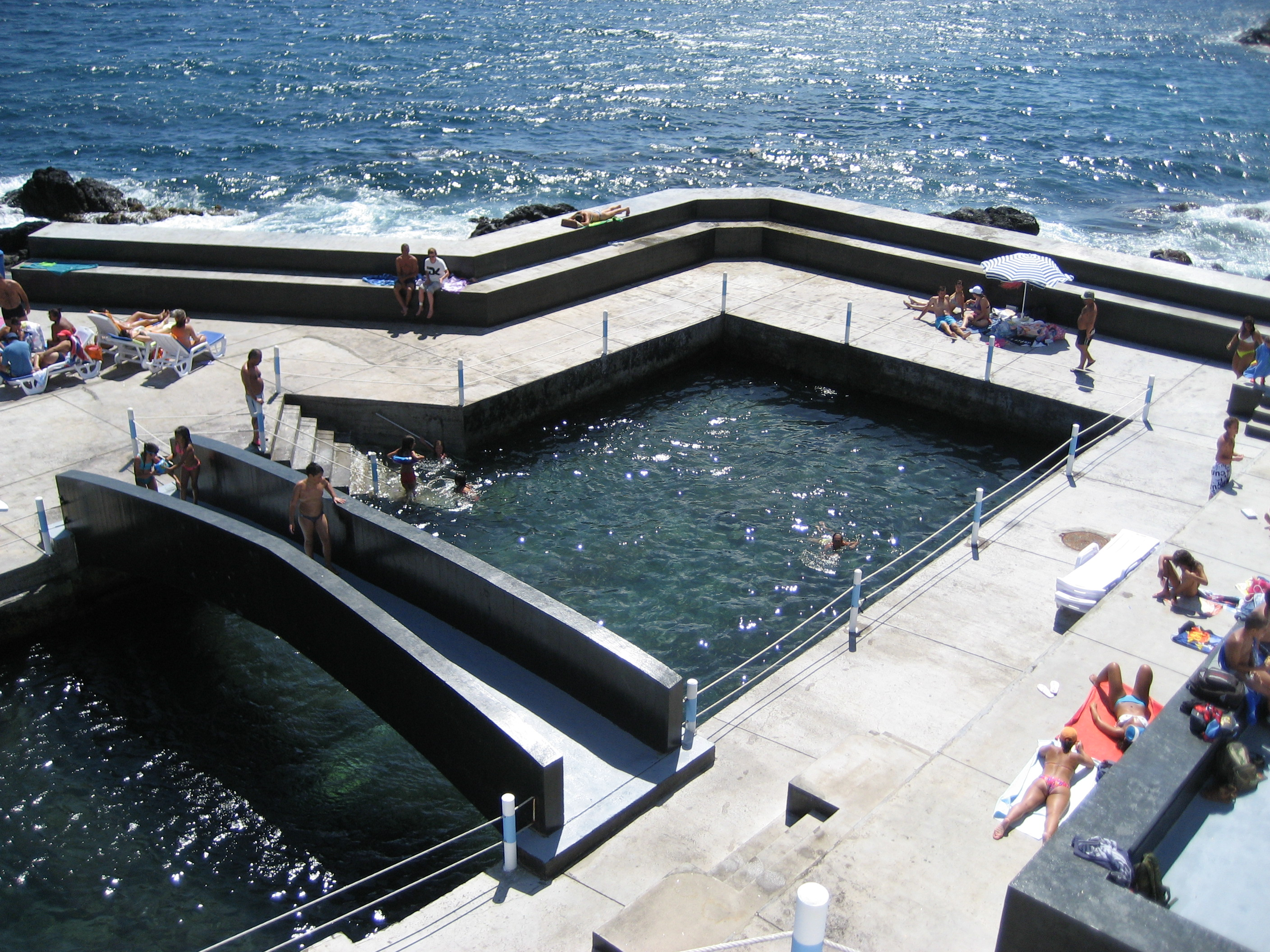 Lagoa, Sao Miguel, swimming pool